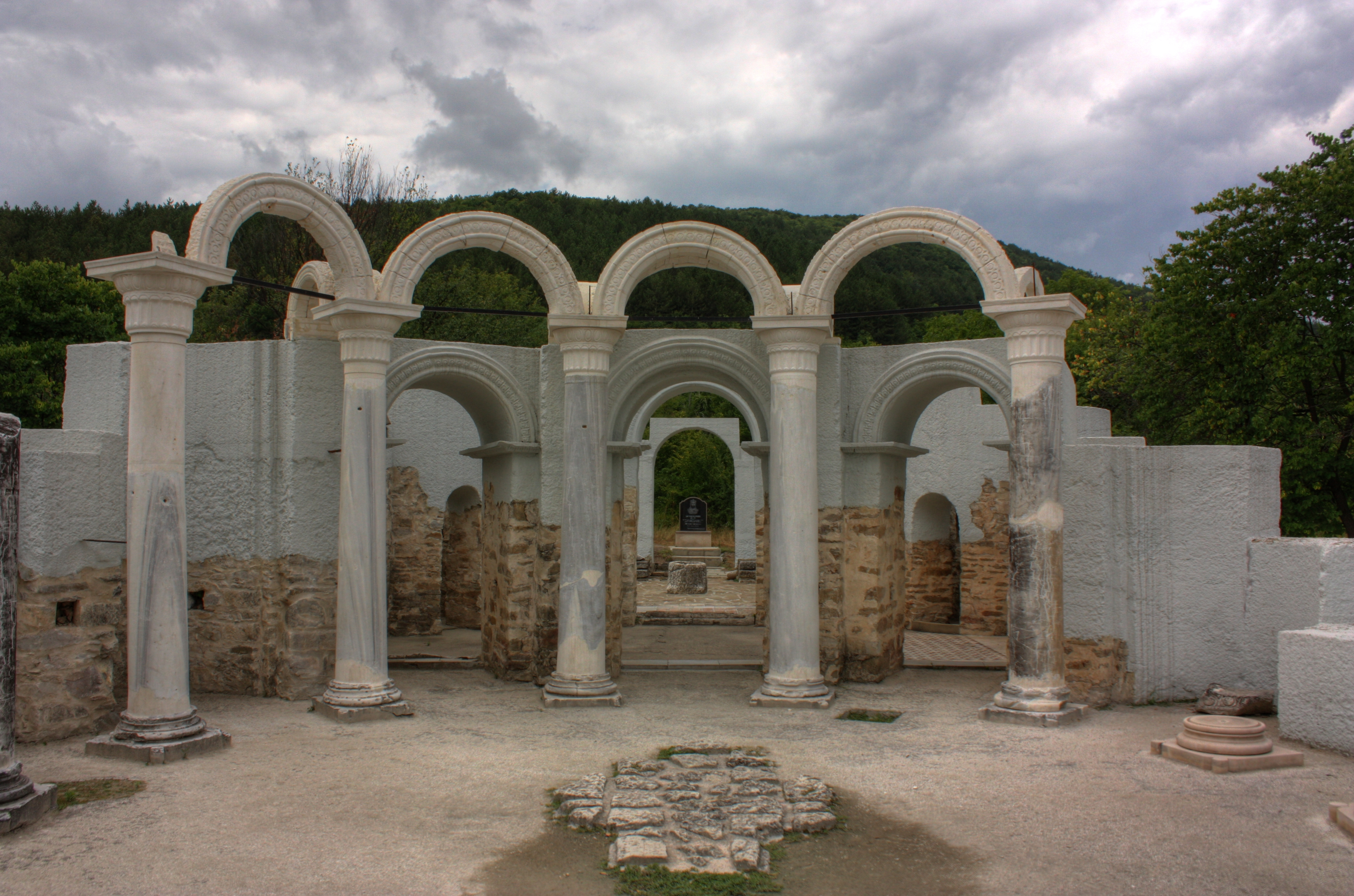 The Golden Church at the ancient Bulgarian capital, Preslav (partial reconstruction)... View from the chancel... Preslav, the capital of the First Bulgarian Empire...